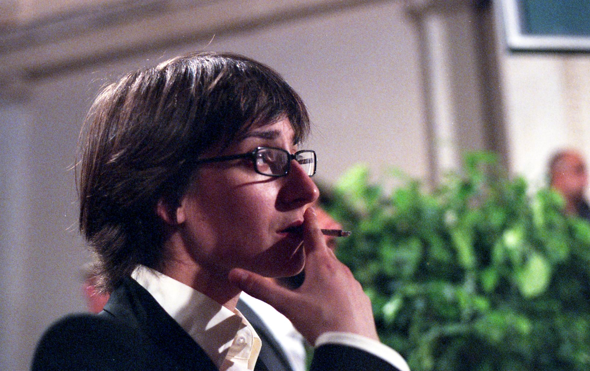 Portrait of Chiara Valerio